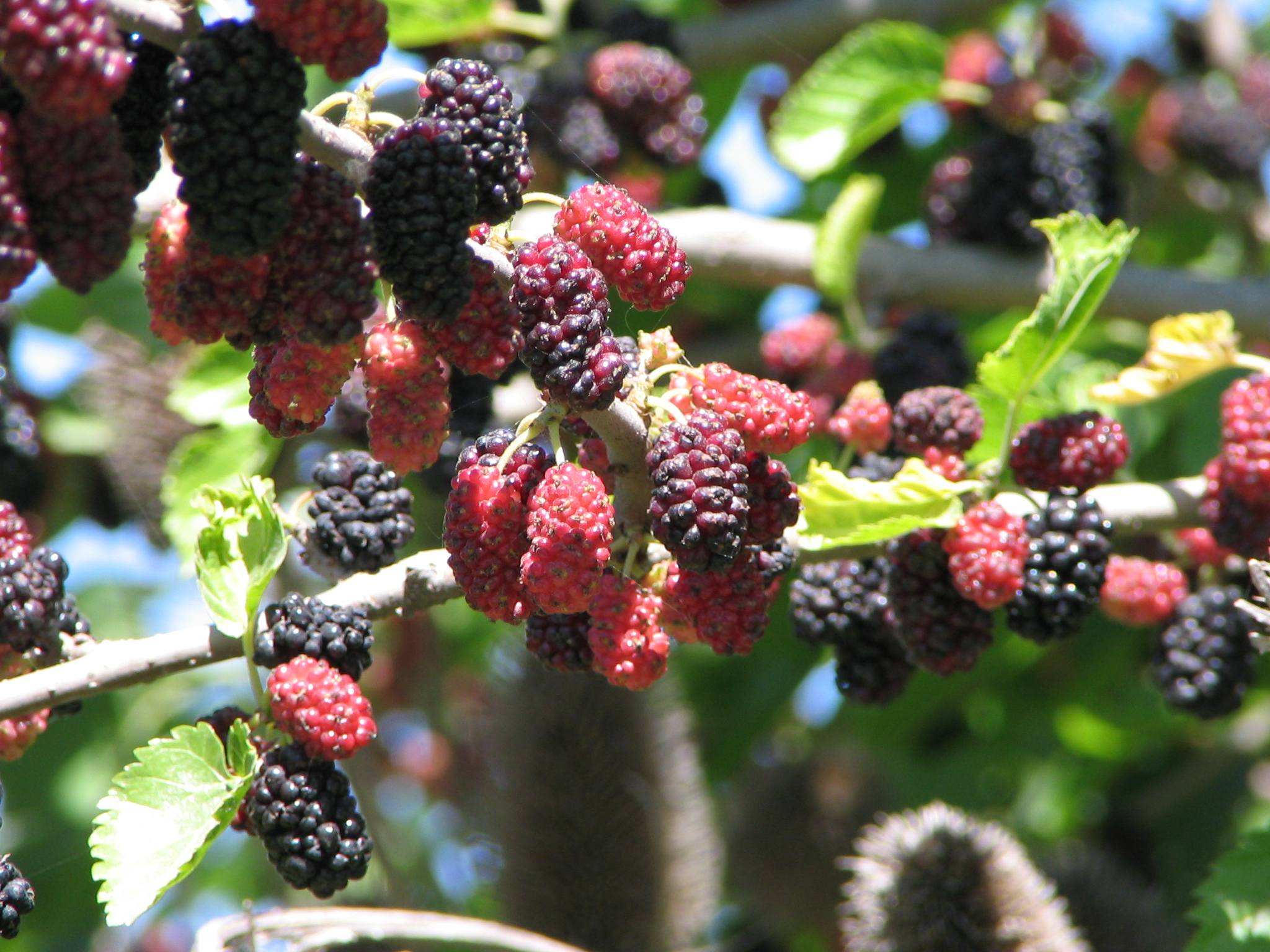 blackberries at Escobar, Buenos Aires province, Argentina